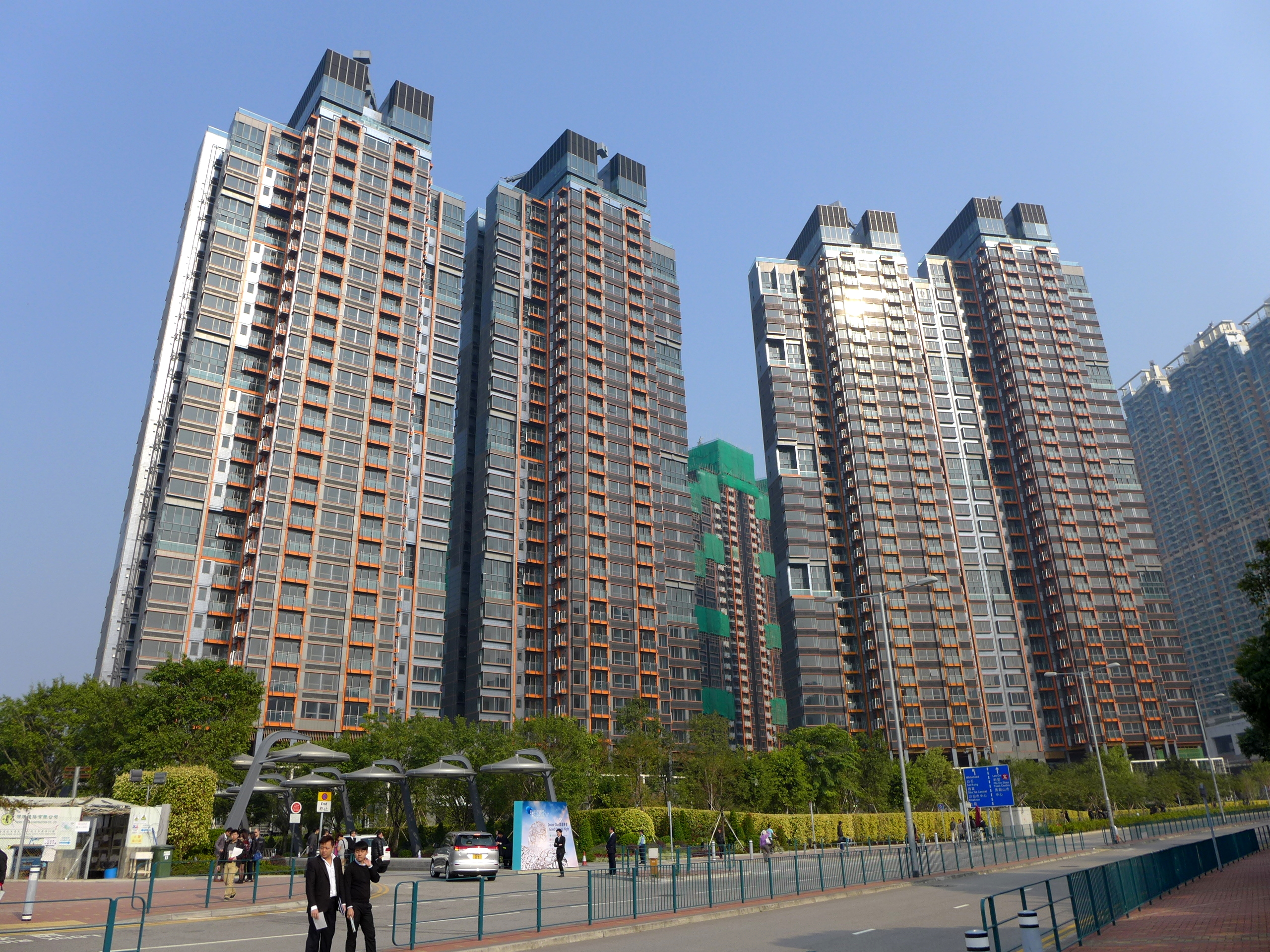 Double Cove Phase 1